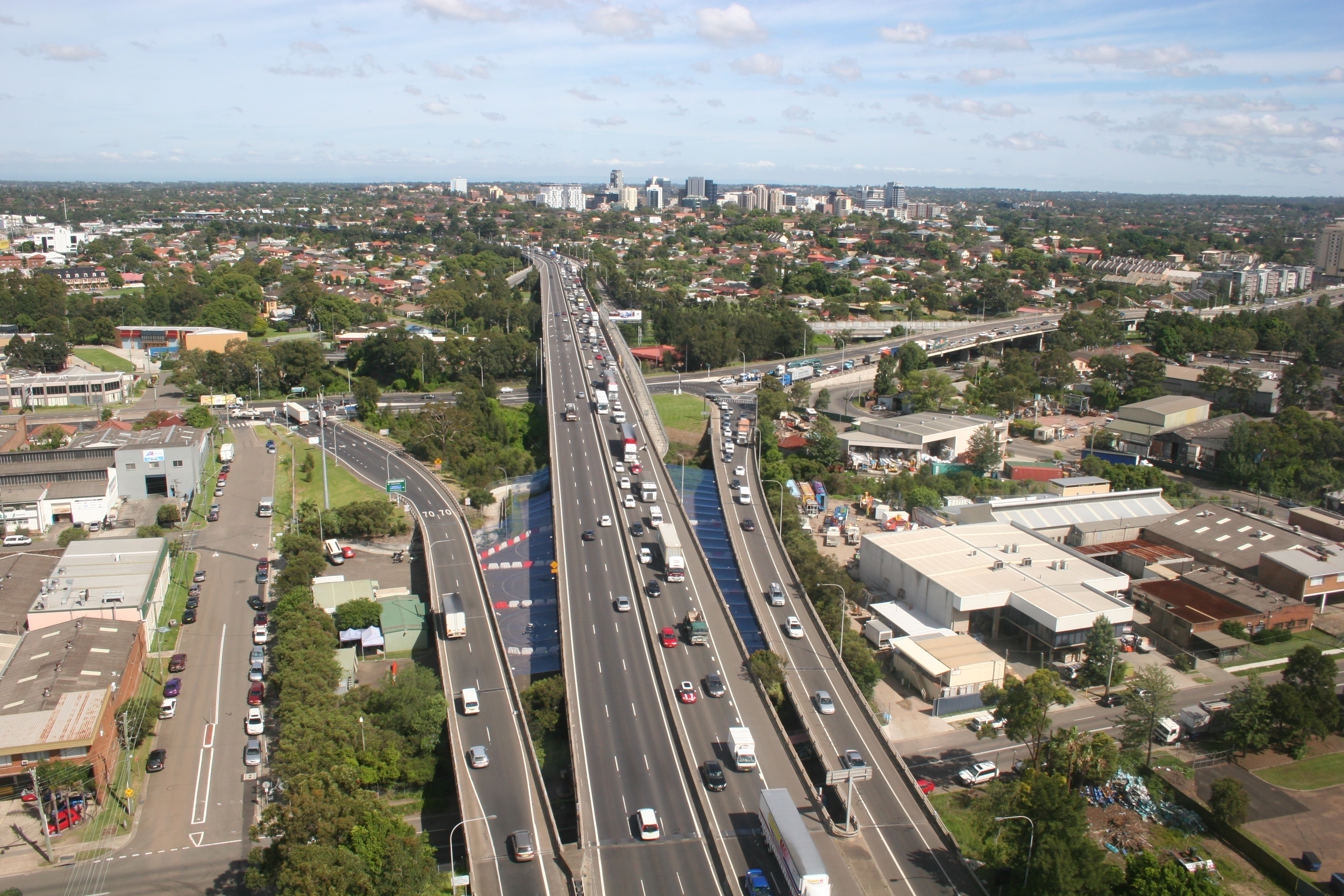 Aerial view of suburbs around Parramatta, Sydney, Australia.